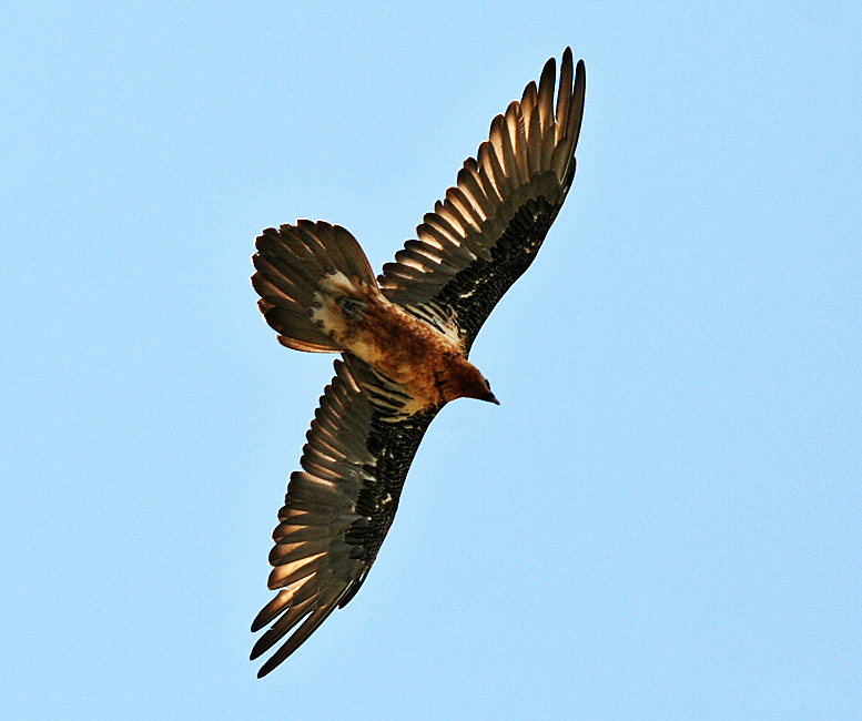 Lammergeier Gypaetus barbatus in Kullu District of Himachal Pradesh, India. Finally after many years I had my destiny with this Beautiful & Mysterious birds of the Himalayas. Not because I saw it for the first time but because I got a pics. I always wanted. It is difficult to capture it as it hardly gives you any time. One round & it is nowhere to be seen unlike the majestic Himalayan Griffon. Moustaches, which can be seen here, are its special attraction. As also its stated habit of dropping bones from a height on the rocks to break them, for its favourite delicious 'bone-marrow' inside the bones. It has been seen even at the height of 7500 mtr. during Everest Expeditions. Taken on 9/5/07 on way to Tilla Lotani (12,500 ft.) from Zirmi Thaatch (11000 ft.) on trek to Sar Pass in Himachal.